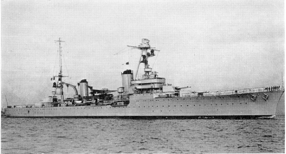 Cruiser Dupleix, ONI203 booklet for identification of ships of the French Navy, published by the Division of Naval Inteligence of the Navy Department of the United States (9 November 1942).